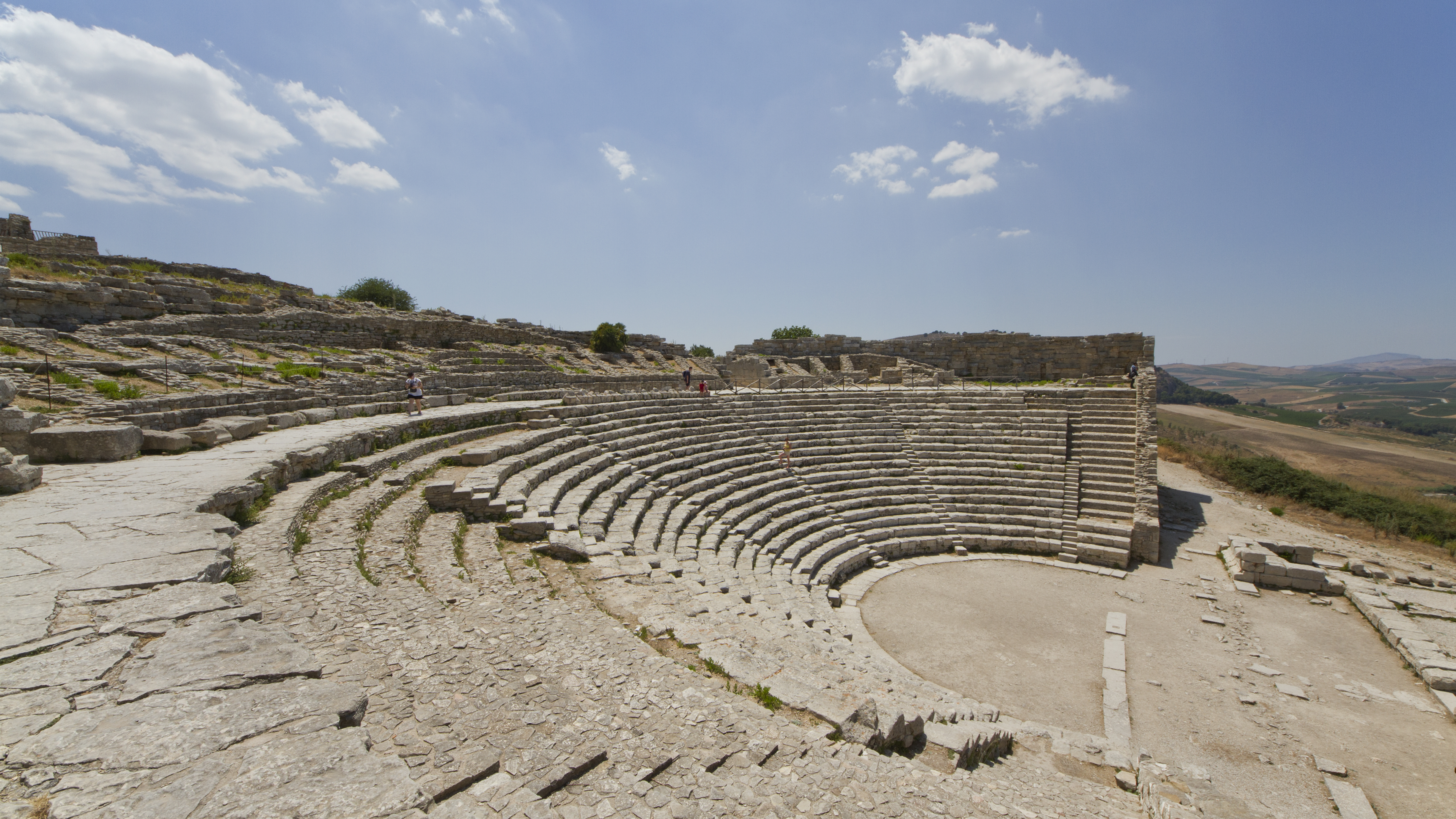 The greek theatre of Segesta, Calatafimi, Trapani, Sicily, Italy